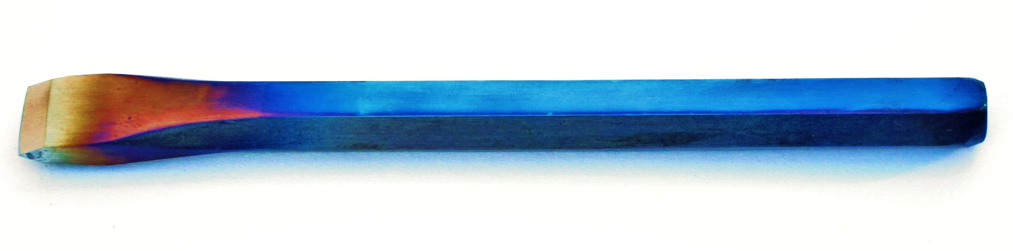 A cold chisel that has been frist quenched, and then differentially tempered. The blue shaft is tempered to a very springy hardness, but the edge is tempered at a very high hardness, as indicated by the tempering colors. This was done by evenly heating the entire tool, with a small propane torch, to around 350 degrees F, and then redirecting the heat to the rear end of the chisel, brushing the flame evenly across the shaft. until it turned a deep blue color. The residual heat conducted quicky to the cutting edge, so the entire tool was quenched when the edge turned the proper color. (The blue color was actually used for better photographic effect, as a chisel made this way would better be tempered to purple along the shaft, t prevent too much deformation during use.)